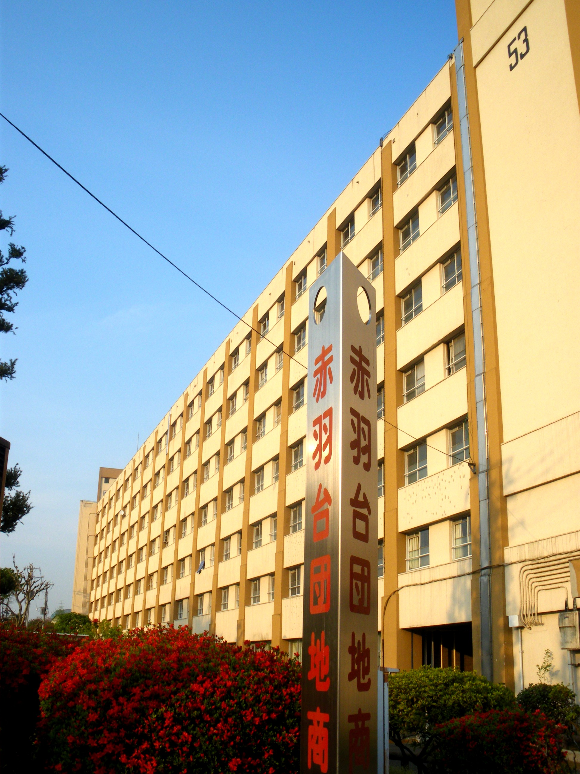 Akabanedai Danchi(Kita,Tokyo)